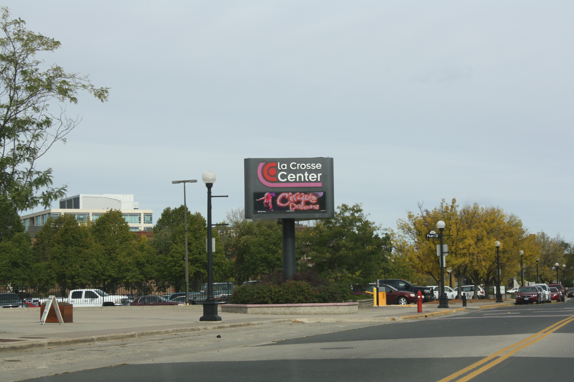 The sign for the La Crosse Center in La Crosse, Wisconsin.